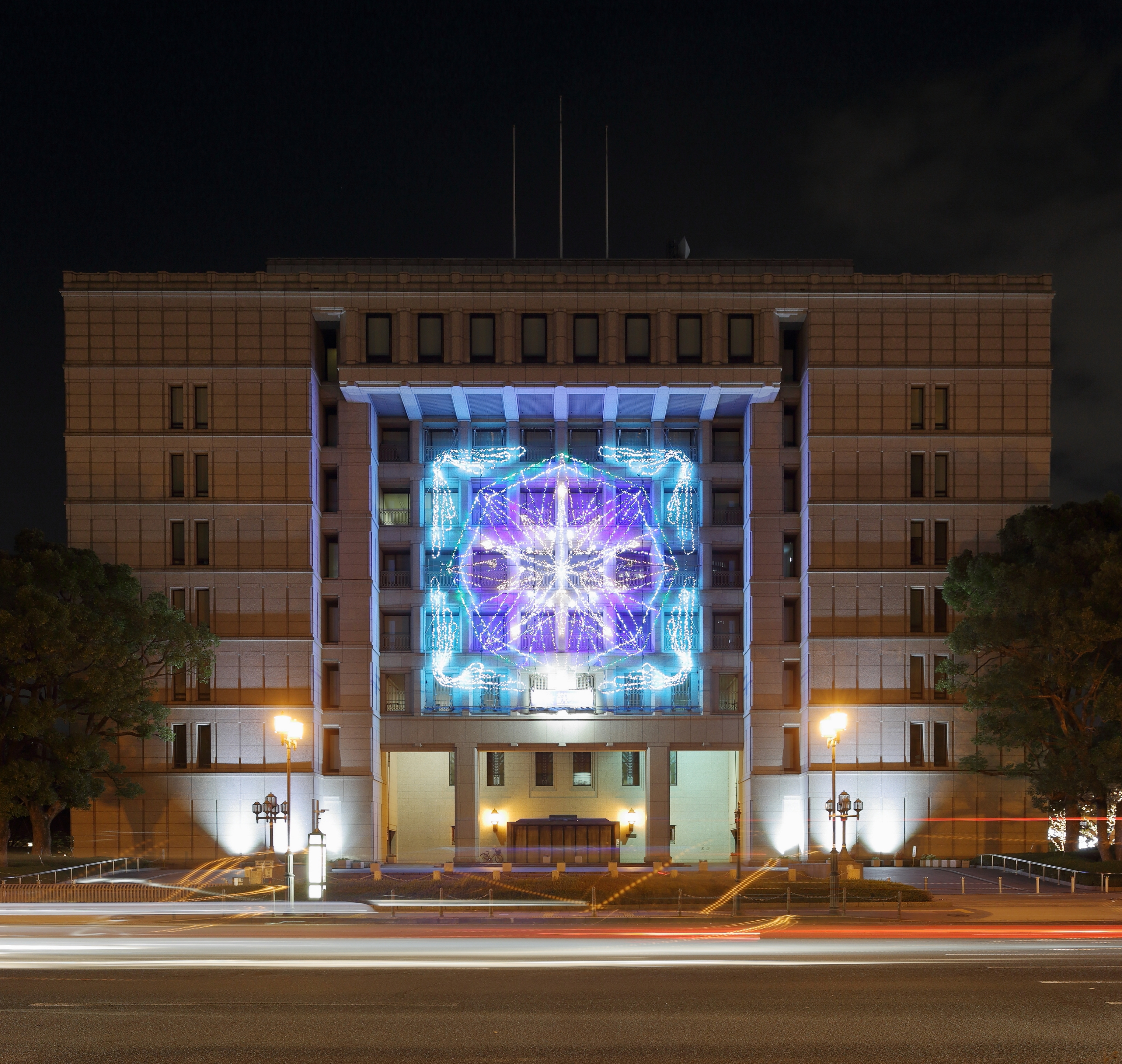 Illuminated main building of Osaka city hall.